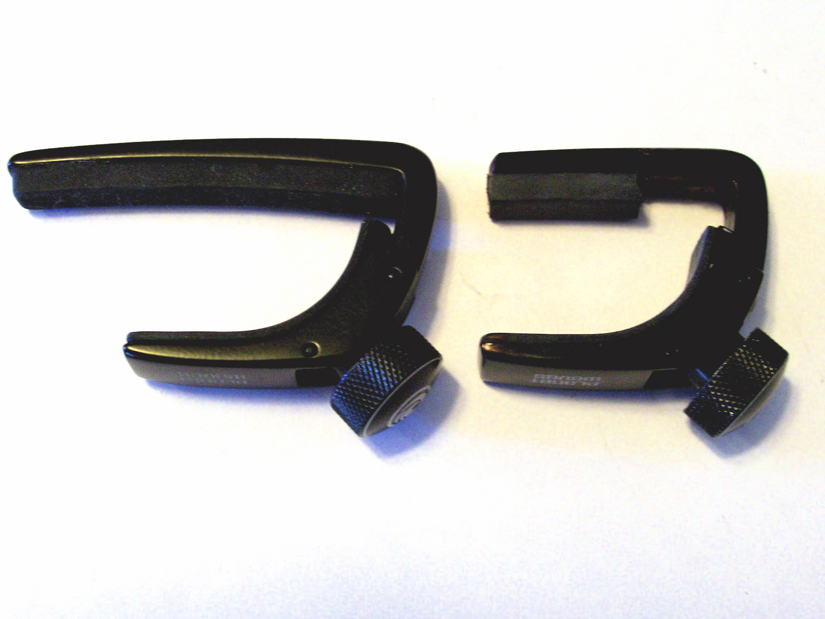 Planet Waves capos - home made cut version